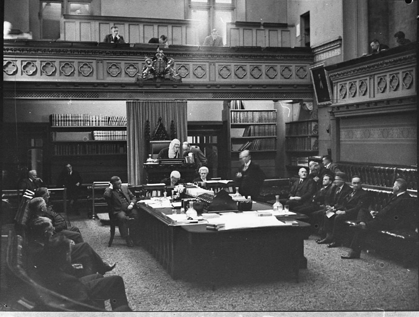 AUP Greater Newcastle bill being passed